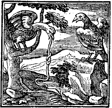 Alciato's Book of Emblems The Memorial Web Edition in Latin and English Andrea Alciato's Emblematum liber or Book of Emblems had enormous influence and popularity in the 16th and 17th centuries. It is a collection of 212 Latin emblem poems, each consisting of a motto (a proverb or other short enigmatic expression), a picture, and an epigrammatic text. Alciato's book was first published in 1531, and was expanded in various editions during the author's lifetime. It began a craze for emblem poetry that lasted for several centuries. We use the Latin text and images from an important edition of 1621 and we give a translation into English.